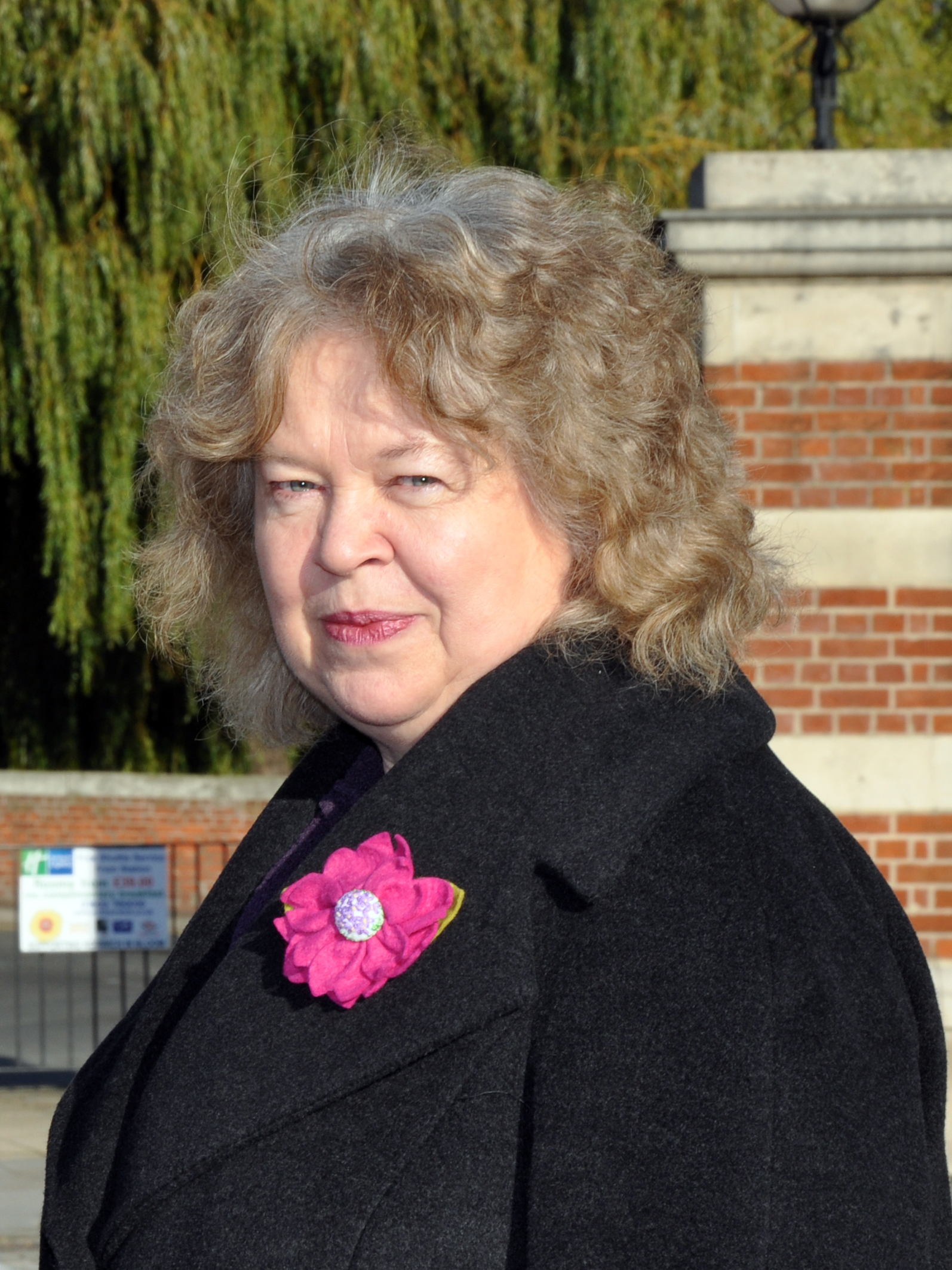 Jean Lambert, Green Party MEP for London, photographed in Norwich, October 2010.